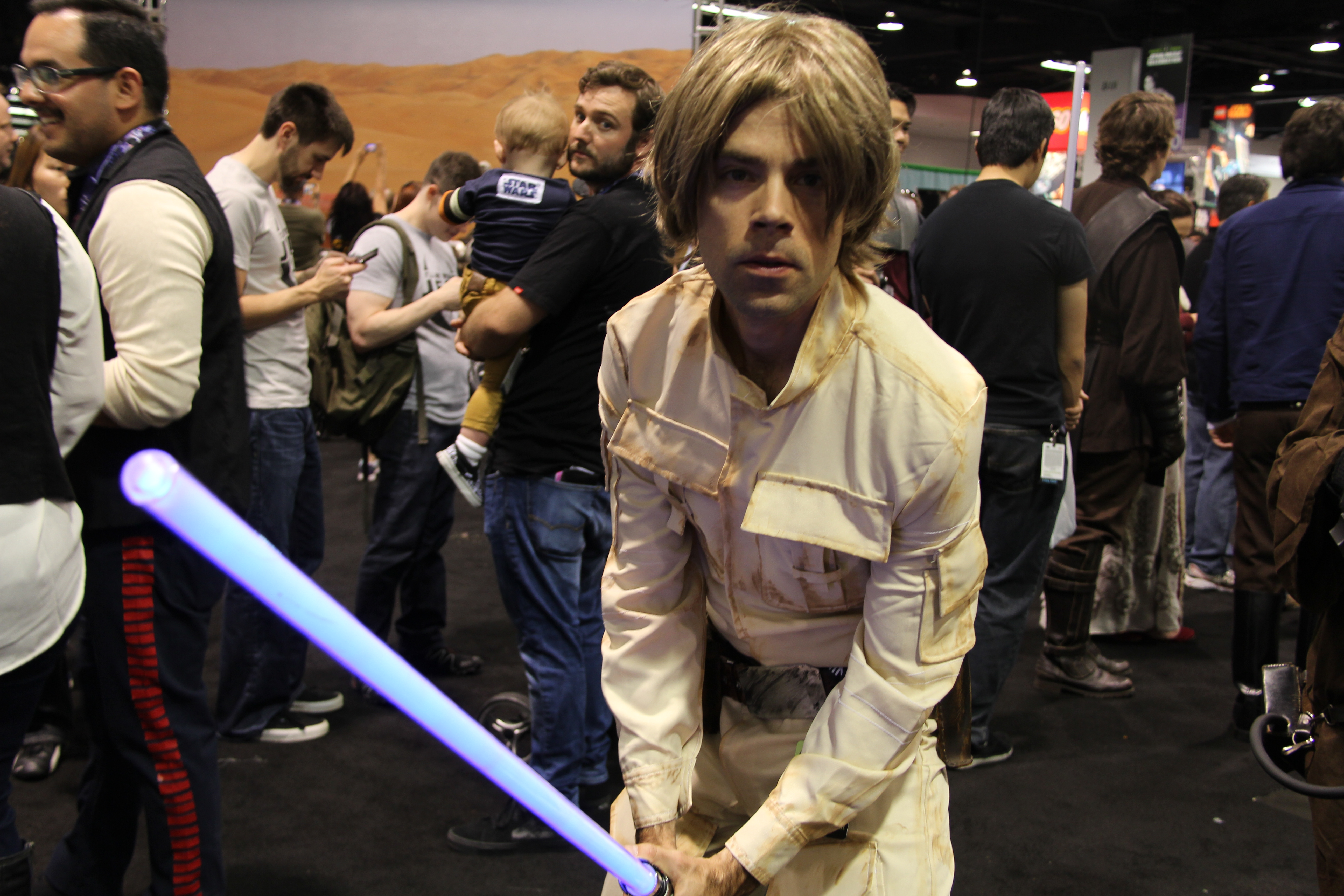 A cosplay of Luke Skywalker from The Empire Strikes Back Star Wars Celebration in Anaheim, April 2015.